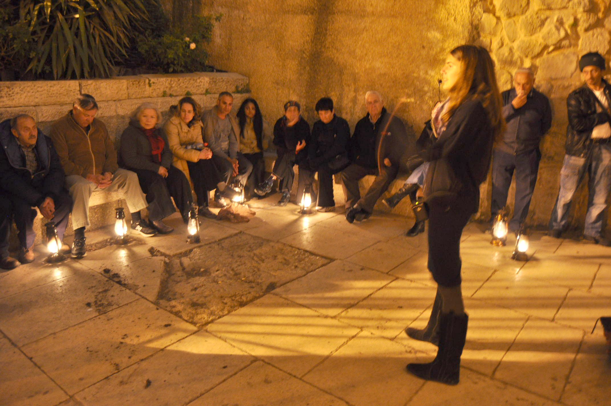 Tour of Old Jerusalem accompanied by lanterns - in the Cardo.